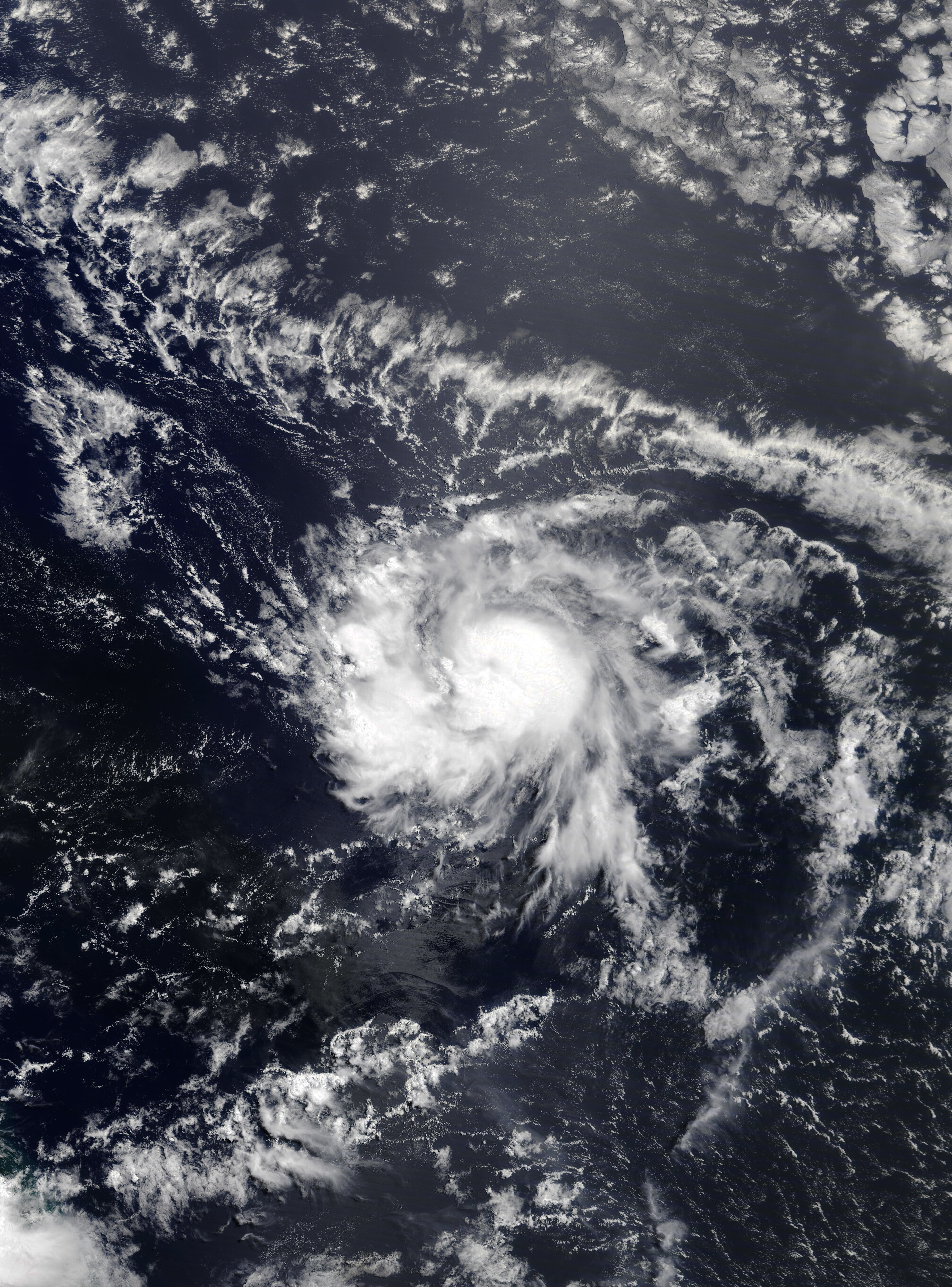 Tropical Storm Gonzalo on July 22, 2020